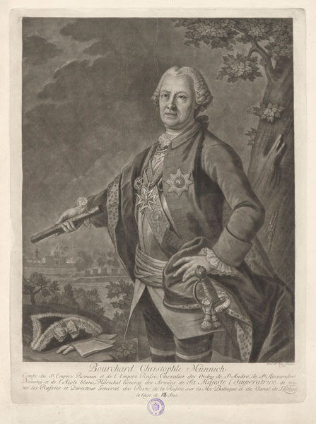 Portrait of General-Feld-Marchall Burchard Christoph Graf von Münnich. After original by Heinrich Buchholtz (1735—1780/1781). Von Münnich is depicted in General-Feld-Marchall's uniform, with the Orders of St. Andrew (sash, star), St. Alexander Nevsky (the cross), White Eagle (cross). Orig. hosted in the State Russian Museum (acc. # Ж-5862)